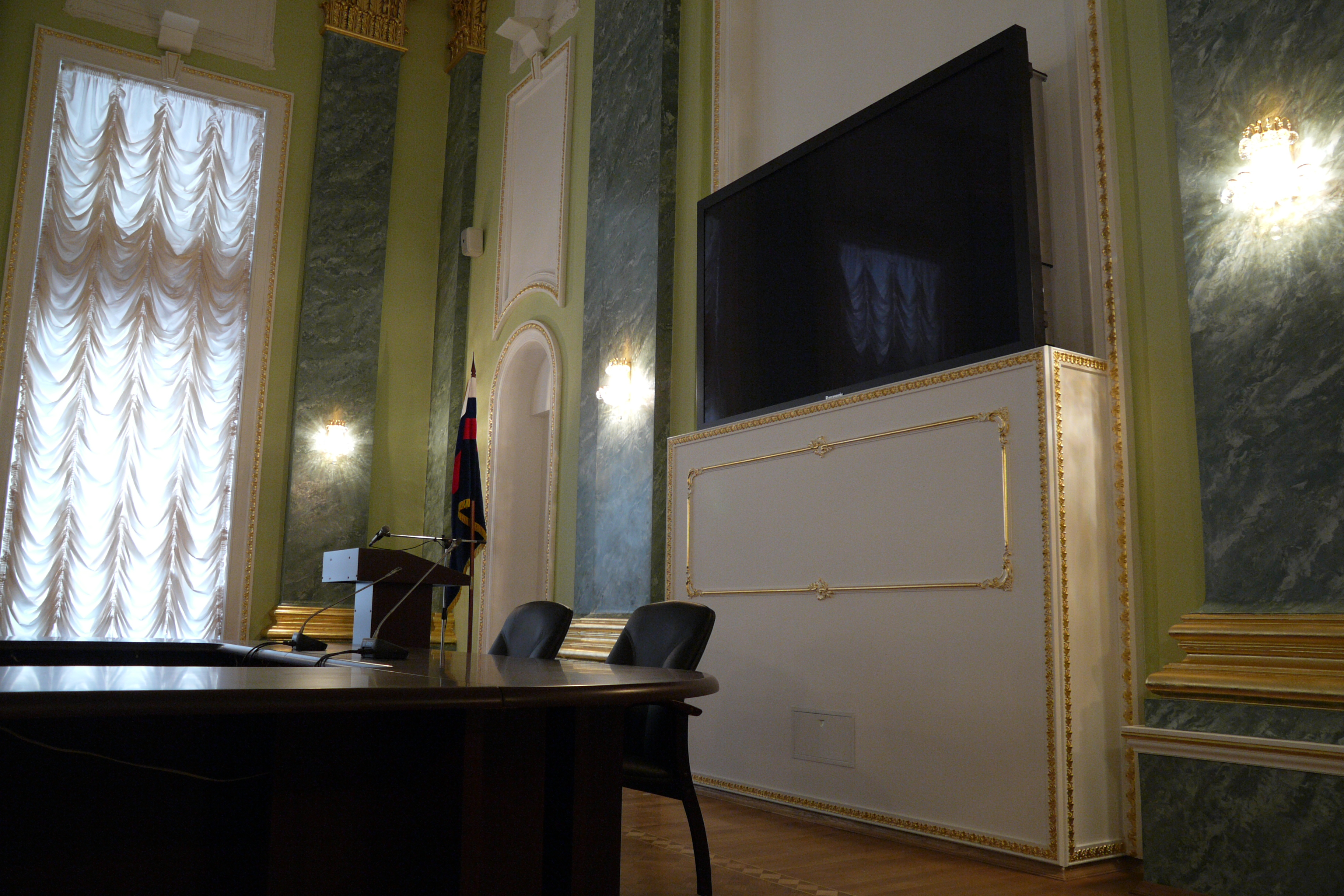 vertikaler TV-Lift